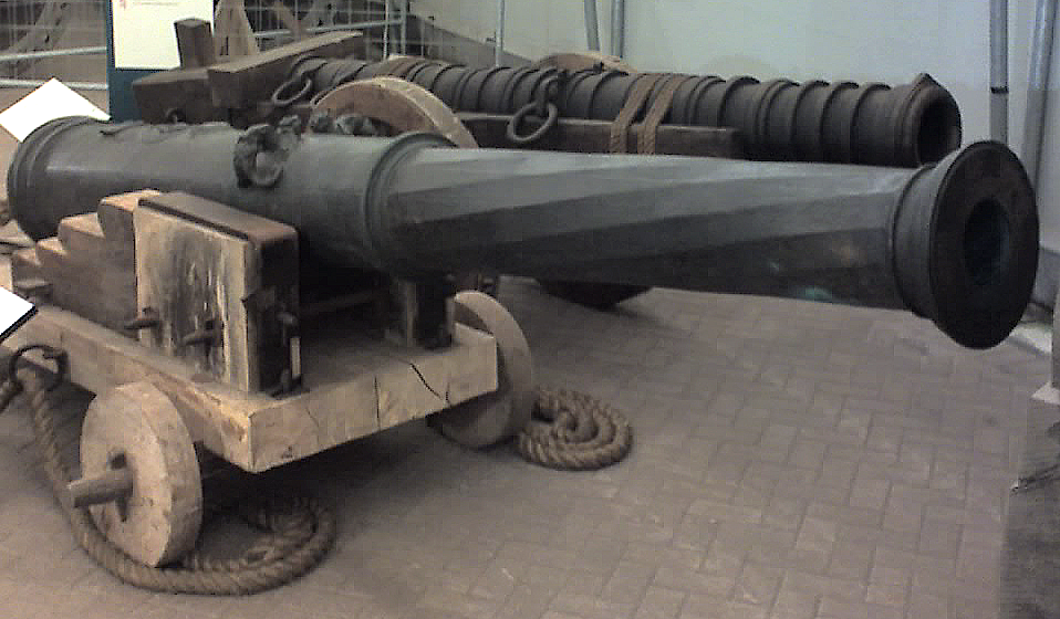 Two guns of 16th century style similar to those mounted on Mary Rose. In front is a bronze cast culverin and behind is a wrought iron cannon, a so-called port piece. I believe these guns are modern historical reconstructions made using similar techniques and materials as the originals for research purposes and test firing. They are in Fort Nelson, Hampshire, UK and I took the photo myself in Feb 07. The Land 20:24, 18 February 2007 (UTC)